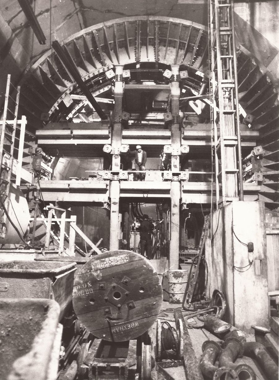 Tunnel boring machine in use constructing the Dartford-Purfleet Tunnel in 1936. Other information